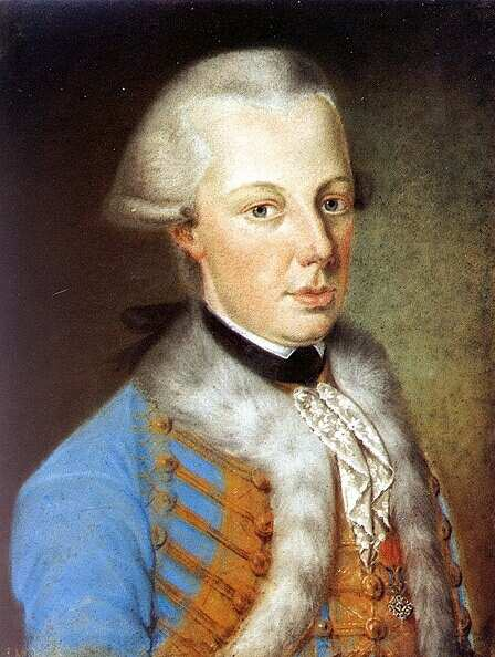 Archduke Alexander Leopold of Habsburg, 1772-1795, Palatin of Hungary 1790-1795, son of Emperor Leopold II